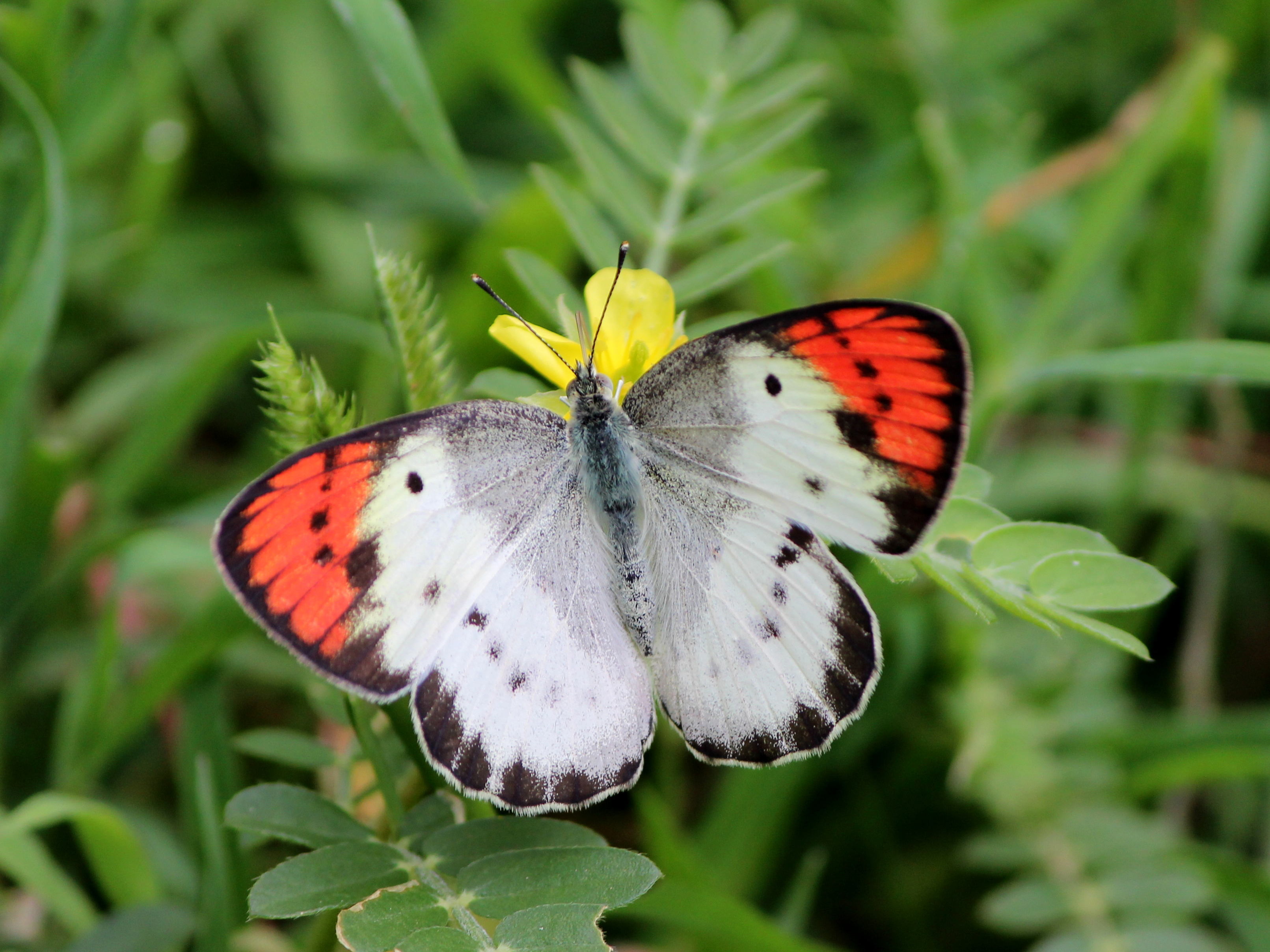 Crimson tip